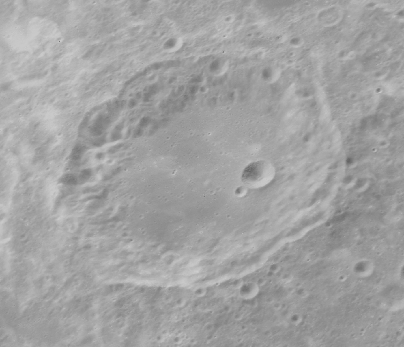 Oblique view of Al-Biruni crater, on the moon. Brightness and contrast adjusted.